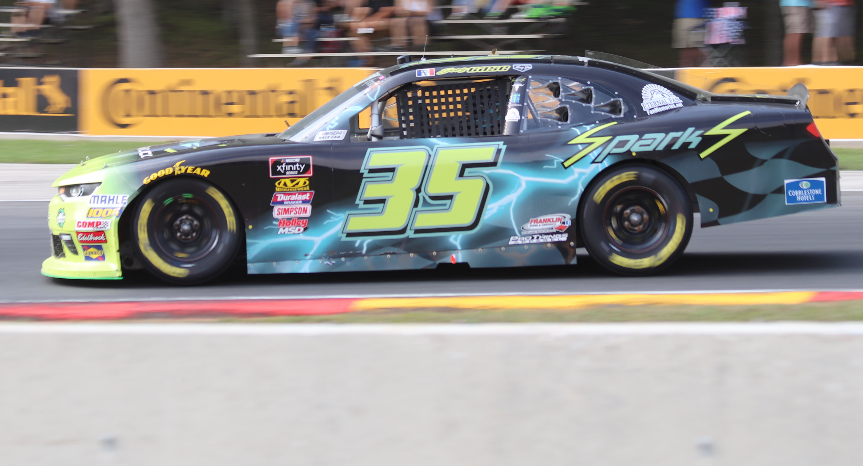 The Chevrolet Camaro of Joey Gase at the NASCAR Xfinity Series Johnsonville 180.